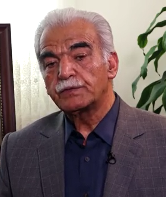 Farzollah Shahin Rad in a 2017 interview with Hossein Dehbashi.